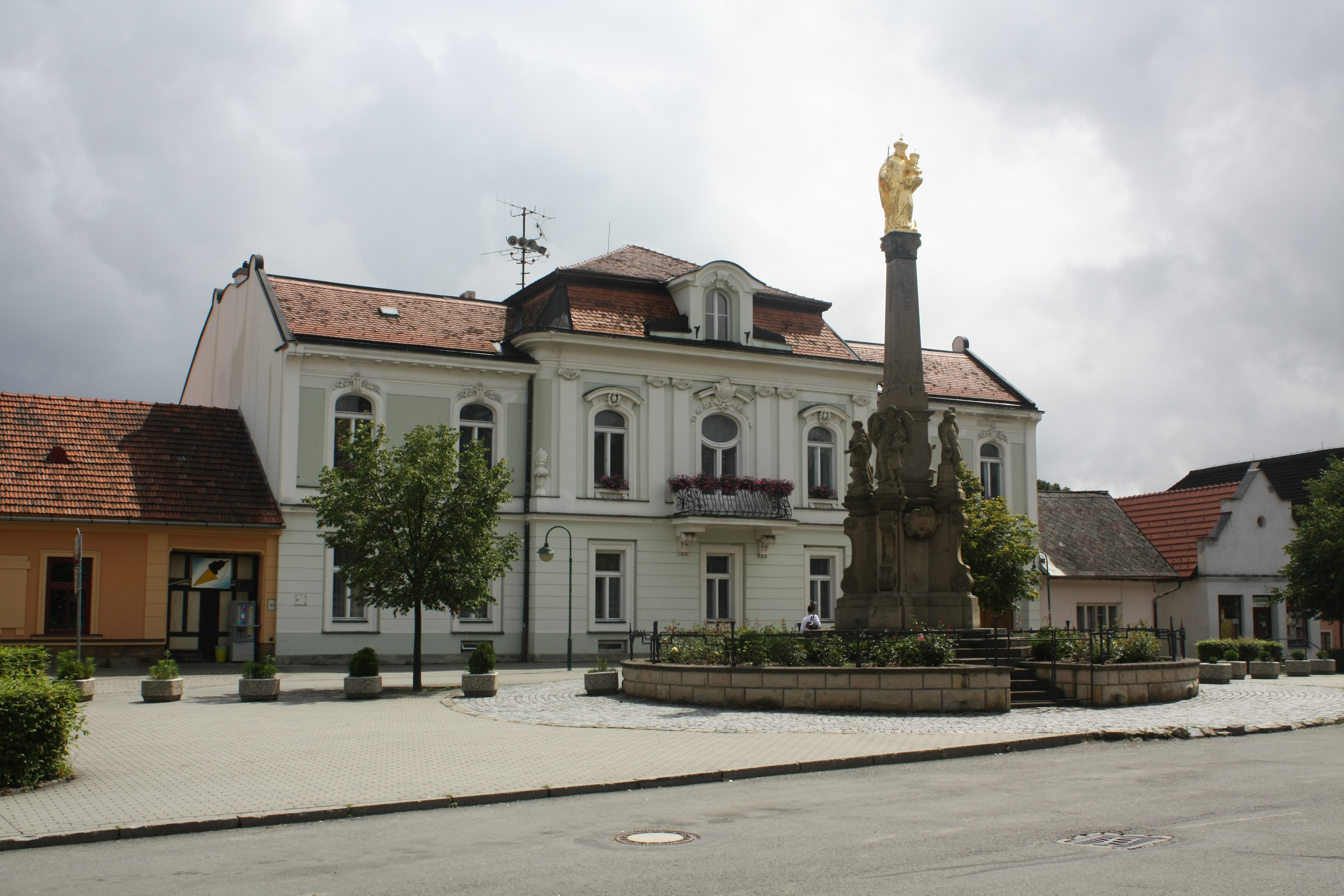 Valašské Klobouky, Zlín District, Czech Republic - town square Object location49° 08′ 25.82″ N, 18° 00′ 27.59″ E